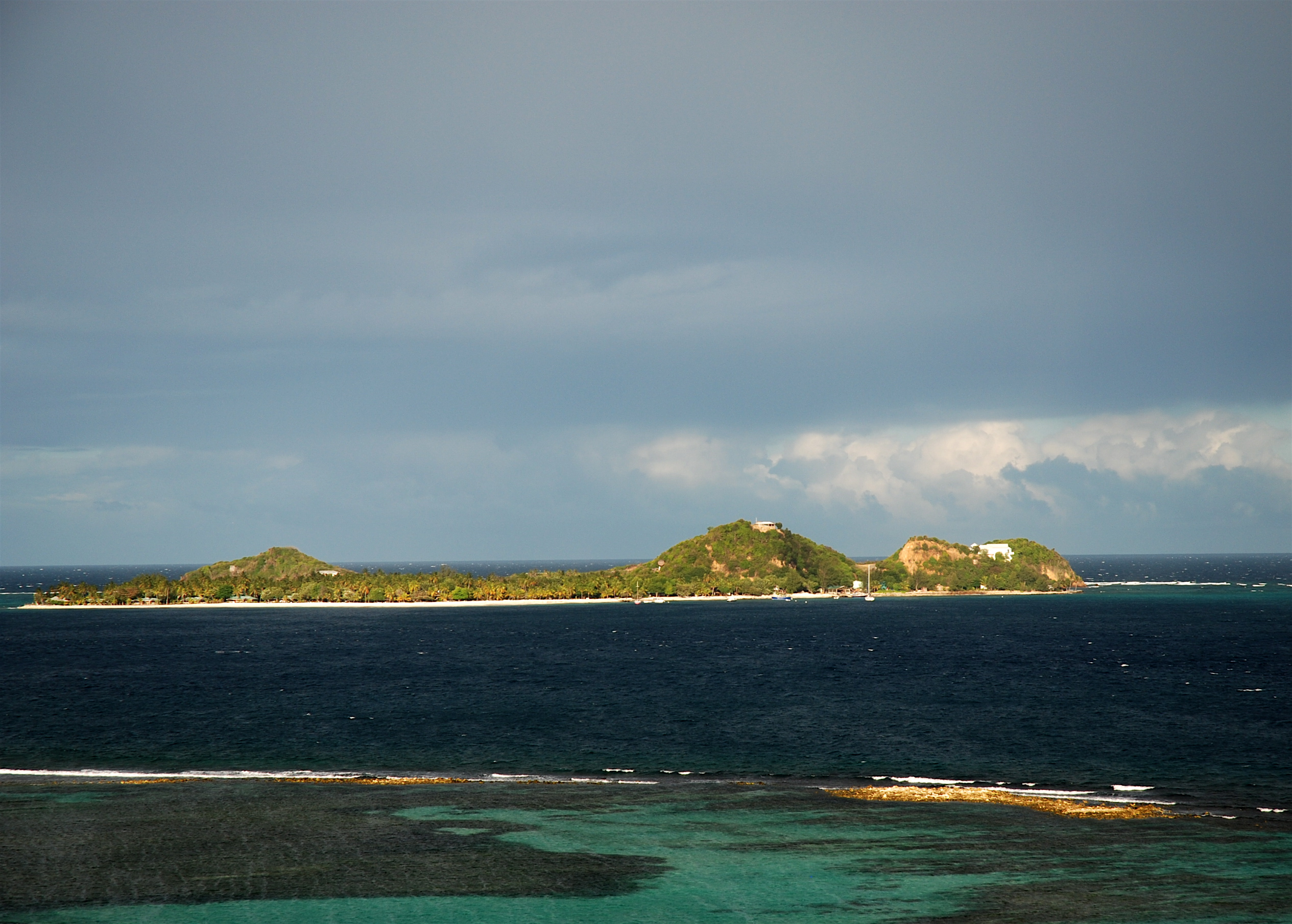 Picture of Palm Island, a resort island off the coast of Union Island, Saint Vincent and the Grenadines; as seen from Union Island looking eastward. Picture by Iain Grant, May 2007.